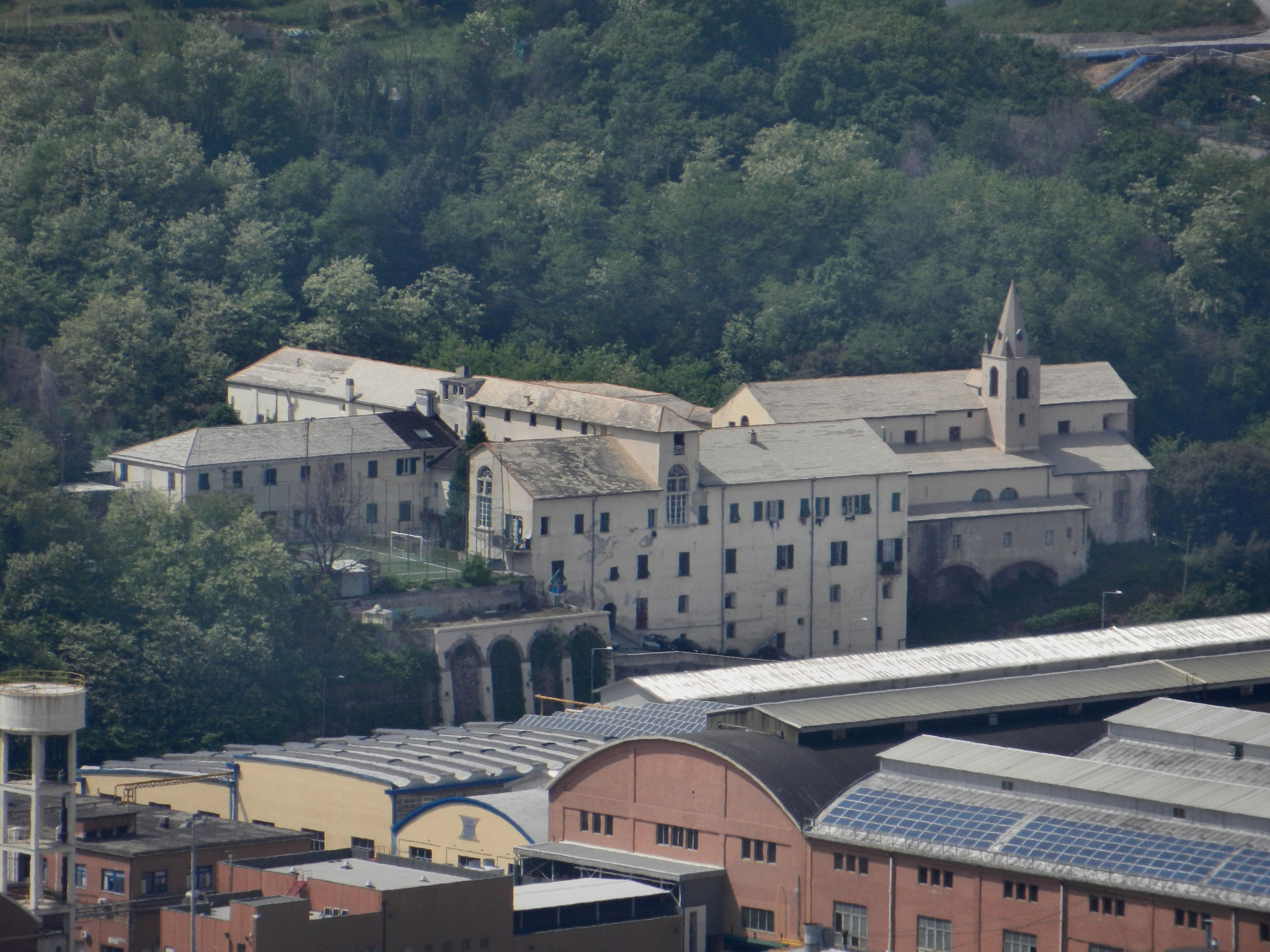 Genoa, Italy, Boschetto abbey